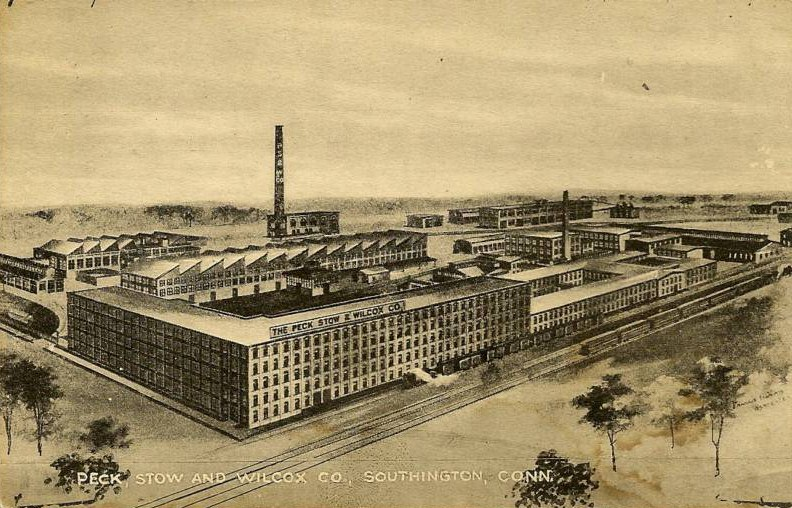 Postcard depicting a bird's-eye view of the Peck, Stow and Wilcox factory in Southington, Connecticut, from an unused 1910 postcard published by the Collotype Company.